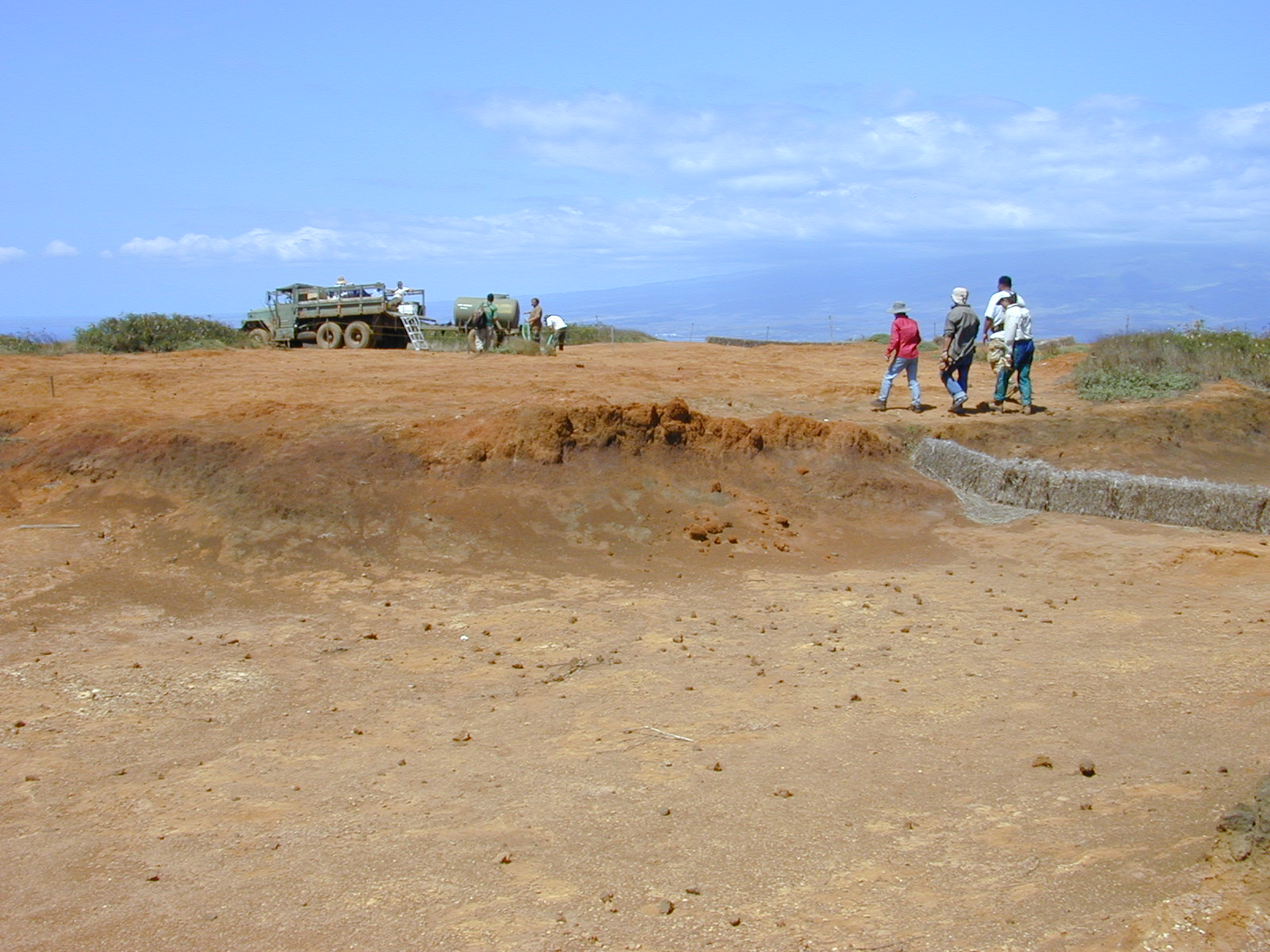 Waltheria indica (volunteers pau). Location: Kahoolawe, Summit